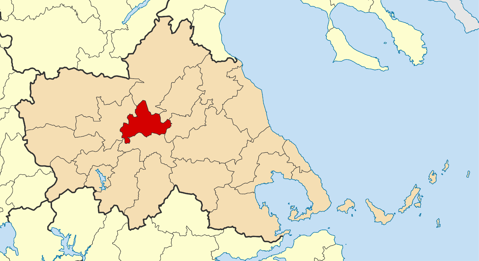 Locator map for Farkadona municipality in Greek region Thessaly (2011)